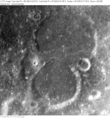 AS17-M-2830 Helmert is the smaller dark-floored crater at the bottom; it appears to partially overlay the larger Kao at the top.